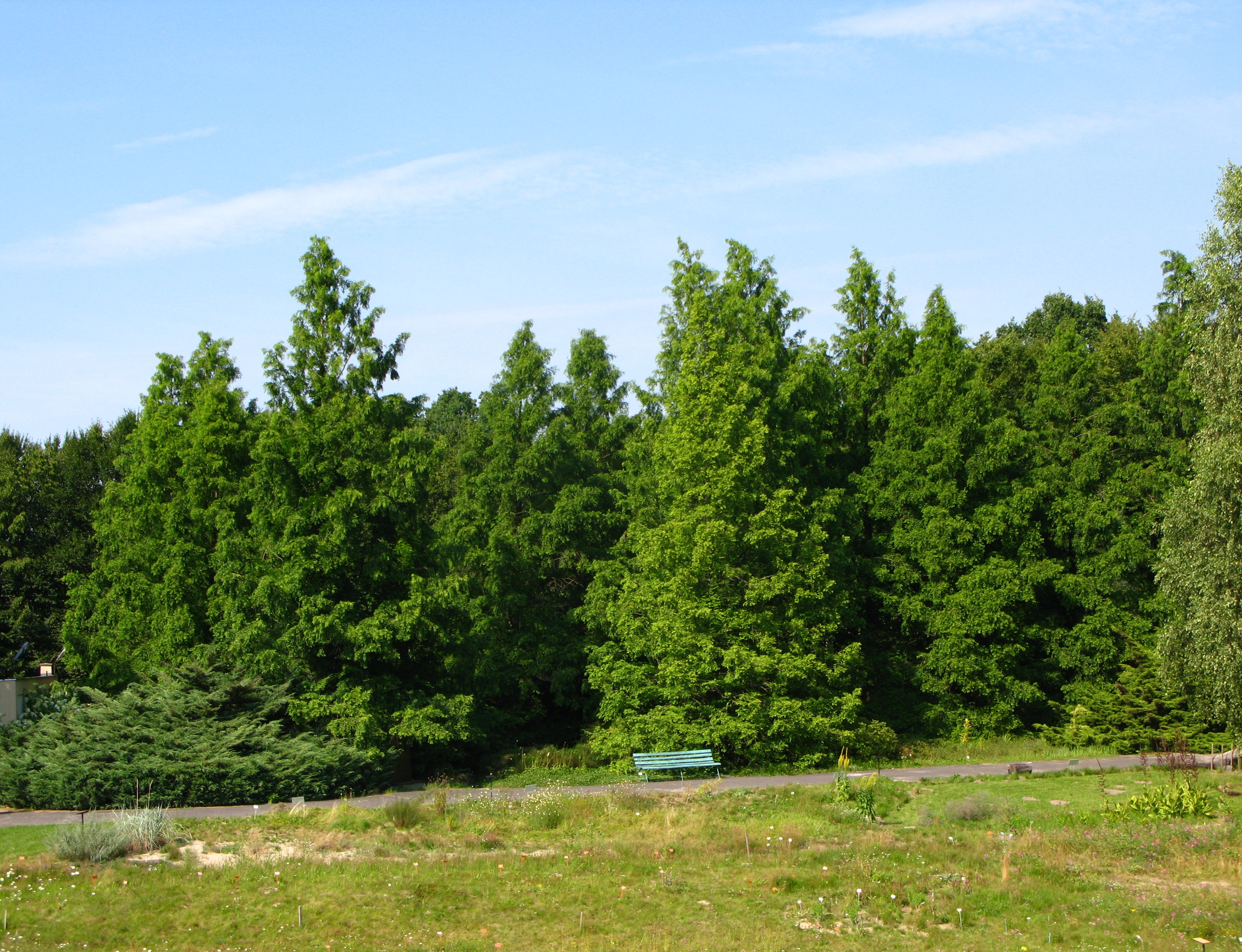 Metasequoia glyptostroboides group in Arboretum in PAN Botanical Garden in Warsaw